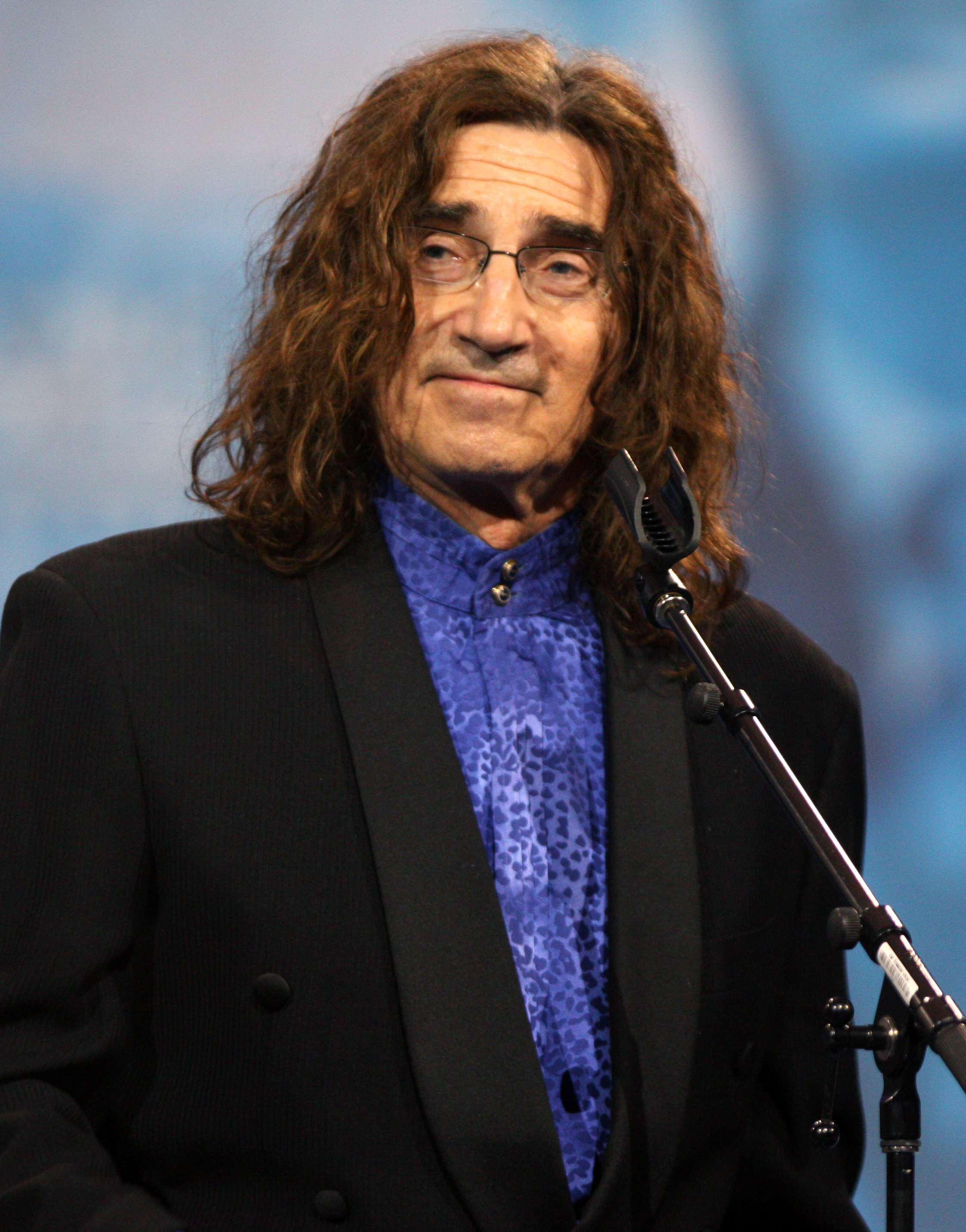 Richard Sterban speaking at the 2013 CPAC in Washington D.C. on March 16, 2013.